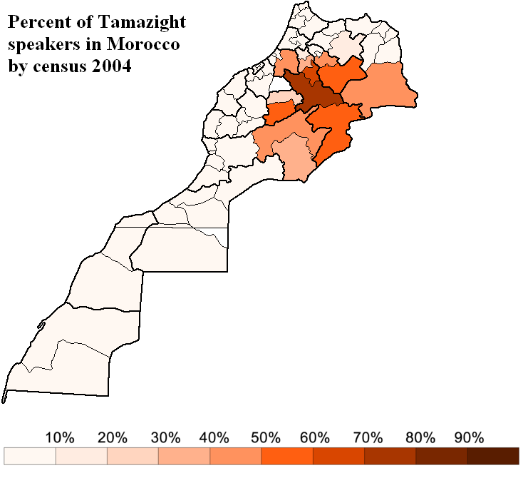 Percent of Tamazight speakers in Morocco by census 2004 Based on data found Here